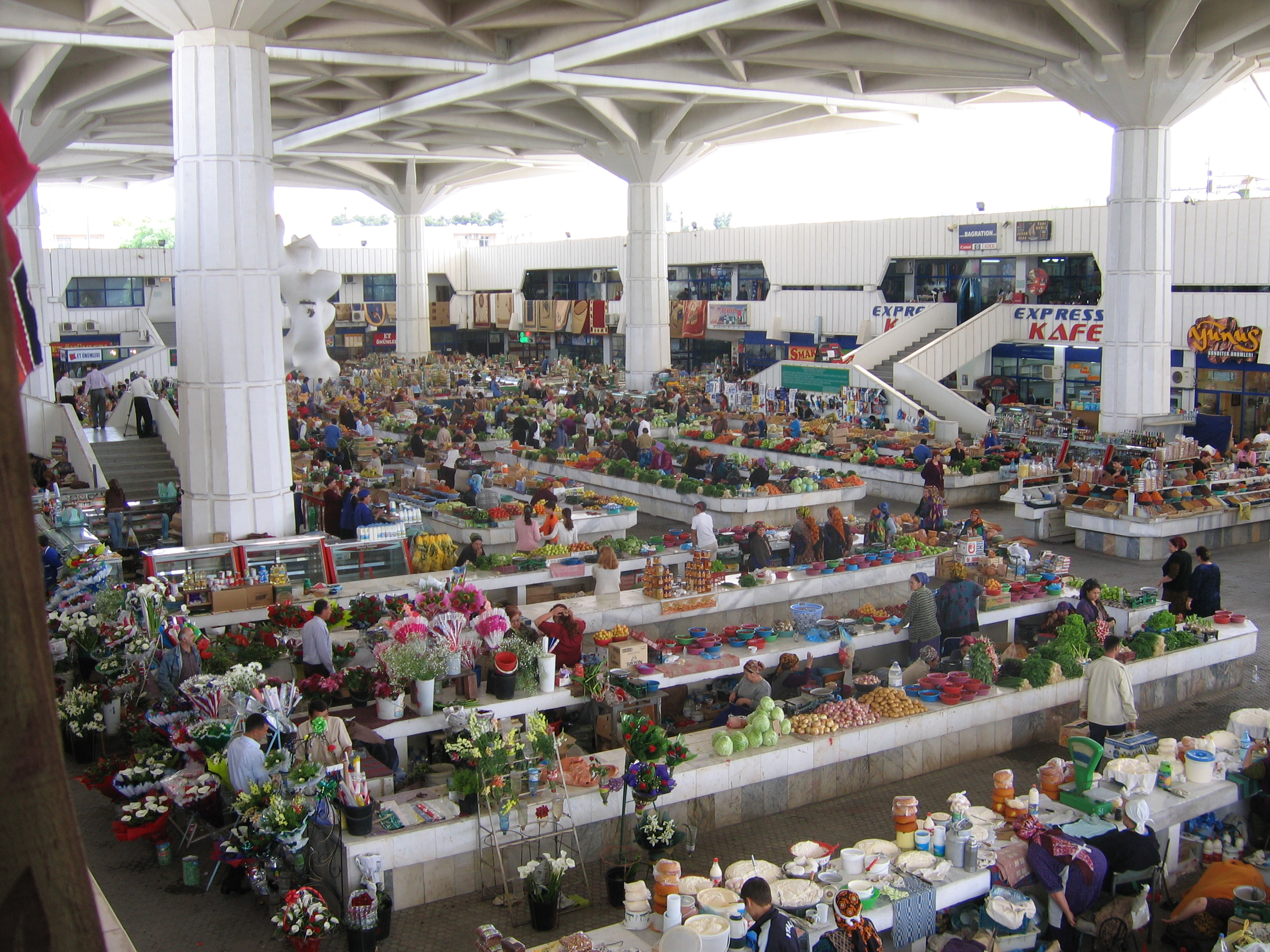 The Russian Baazar in Ashgabat